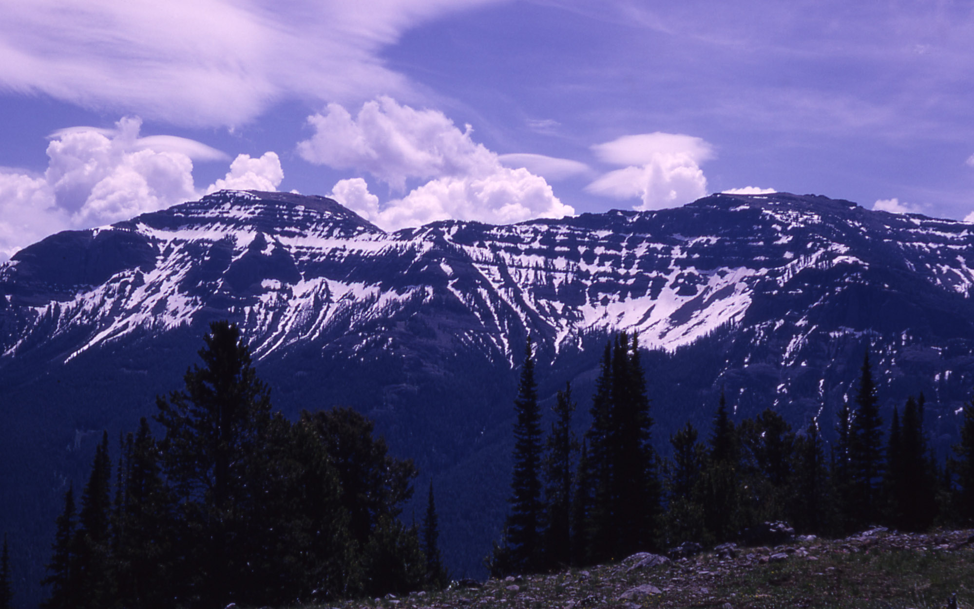 The Thunderer, Yellowstone National Park, Wyoming, 1966